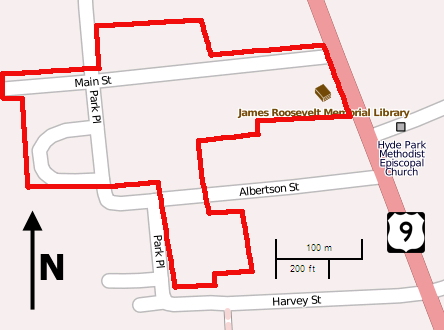 Map showing boundaries of Main Street-Albertson Street-Park Place Historic District, Hyde Park, NY, in red This map may be incomplete, and may contain errors. Don't rely solely on it for navigation.